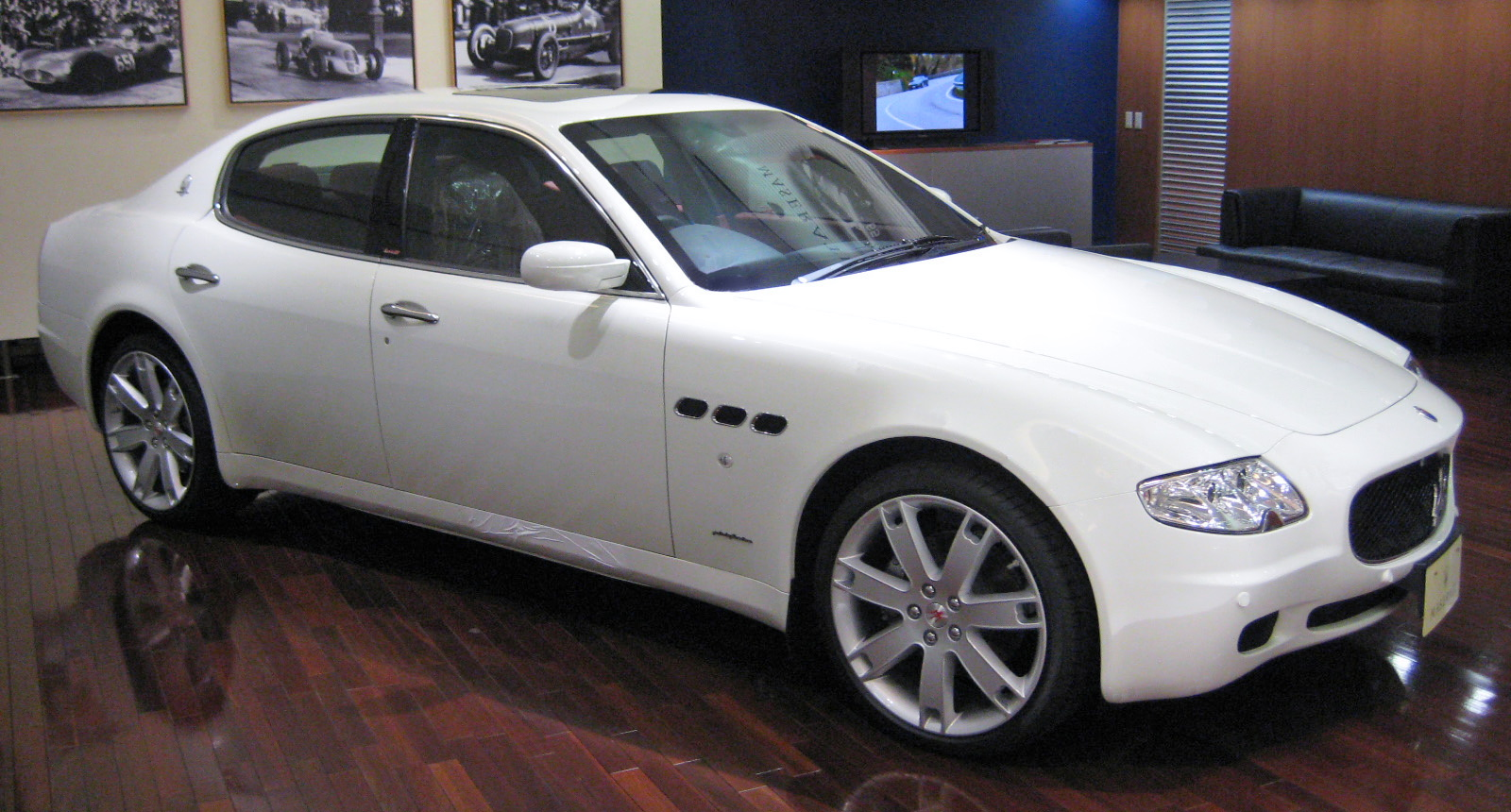 Maserati Quattroporte V Sport GT S photographed in Cornes Aoyama Showroom (Minato, Tokyo)